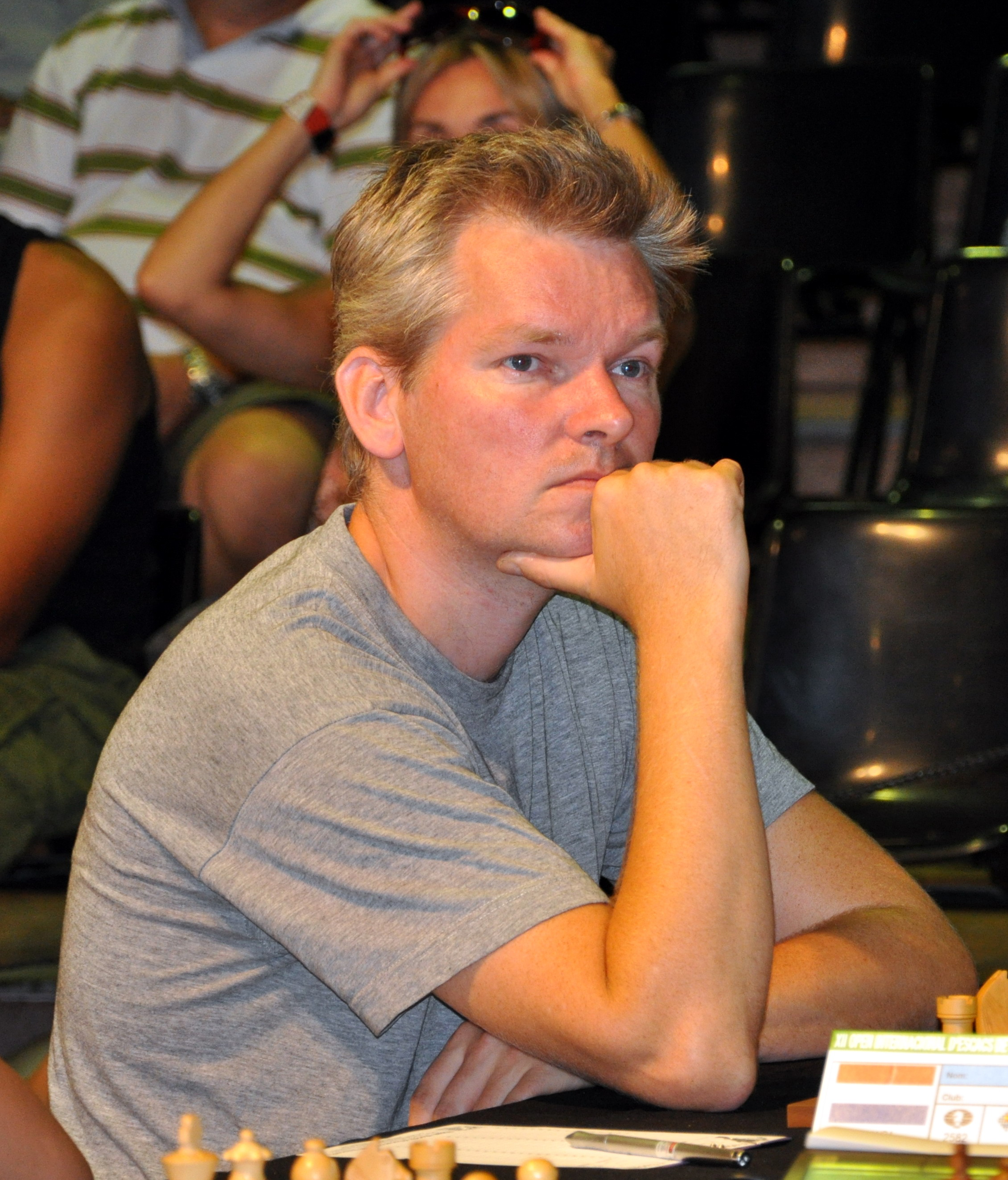 GM Friso Nijboer (Netherlands), XII Open Internacional de Sants, Hostafrancs i la Bordeta Grup A, Barcelona 2010